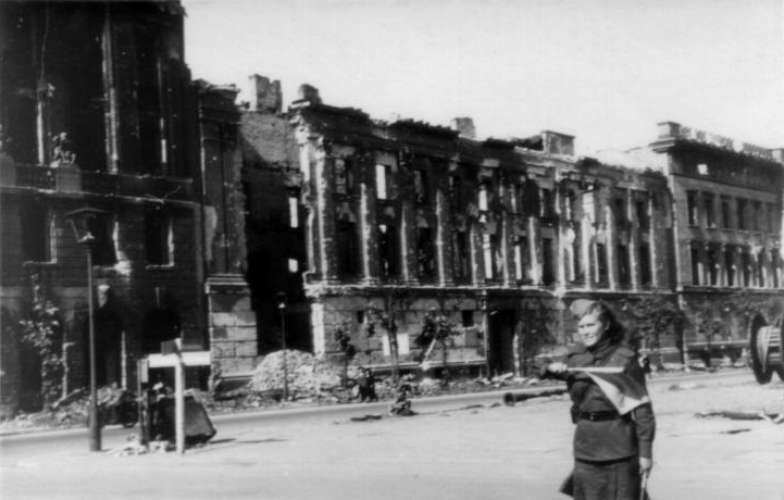 Berlin, Unter den Linden, crossing with Wilhelmstraße, begin of May 1945, Soviet soldier as traffic policewoman in front of the ruins of the houses Unter den Linden # 76, 74 and 70-72 (from left)